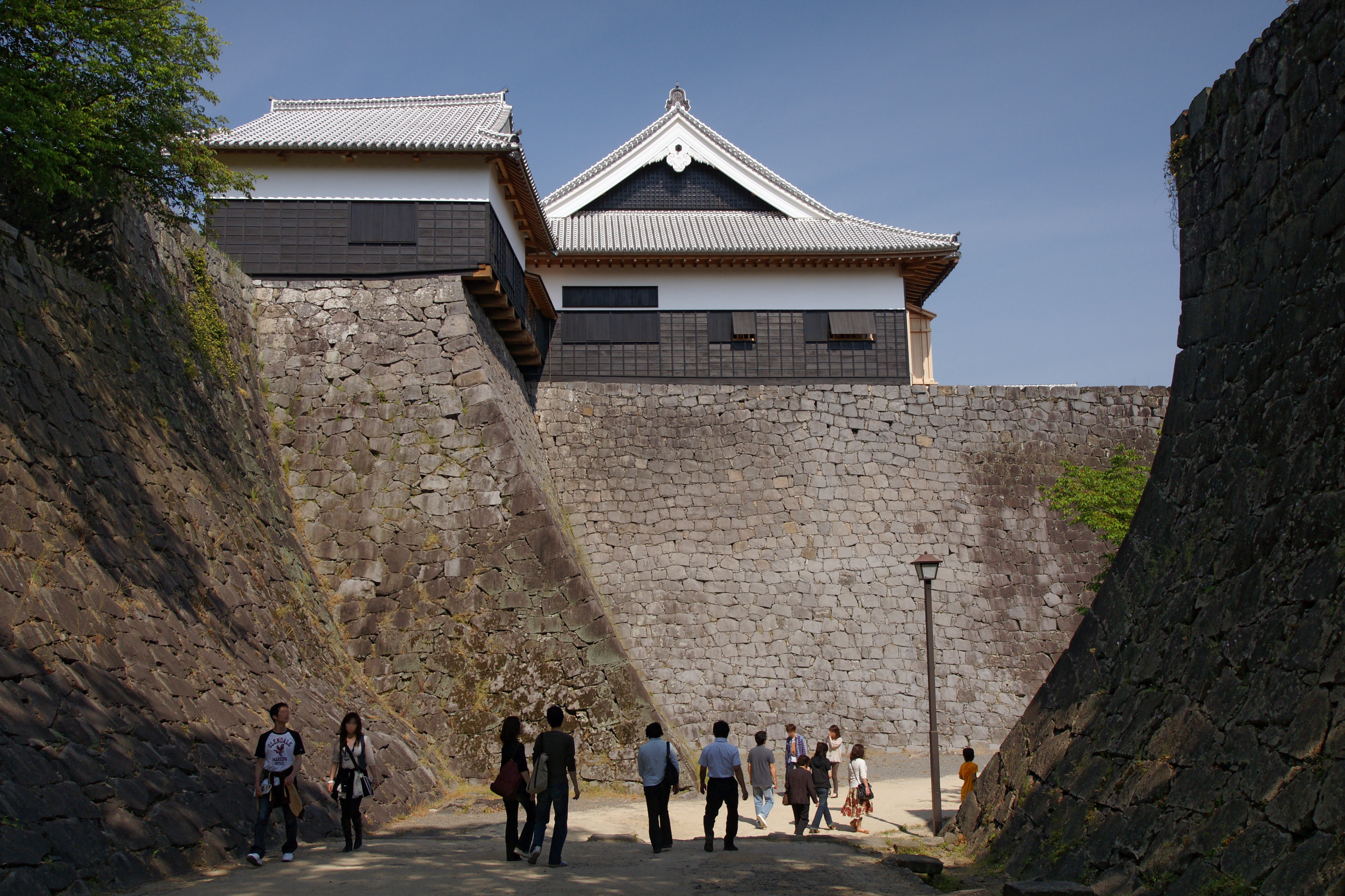 Kumamoto Castle, Kumamoto, Kumamoto prefecture, Japan